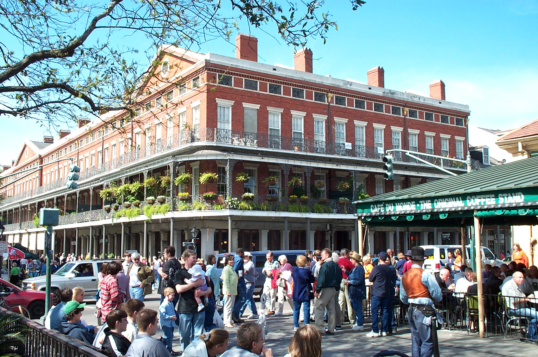 Photo of Decatur Street, New Orleans, with Lower Pontalba Building to left and center, part of the awning of Cafe du Monde on right, Lower Pontabla building on Jackson Square in background.